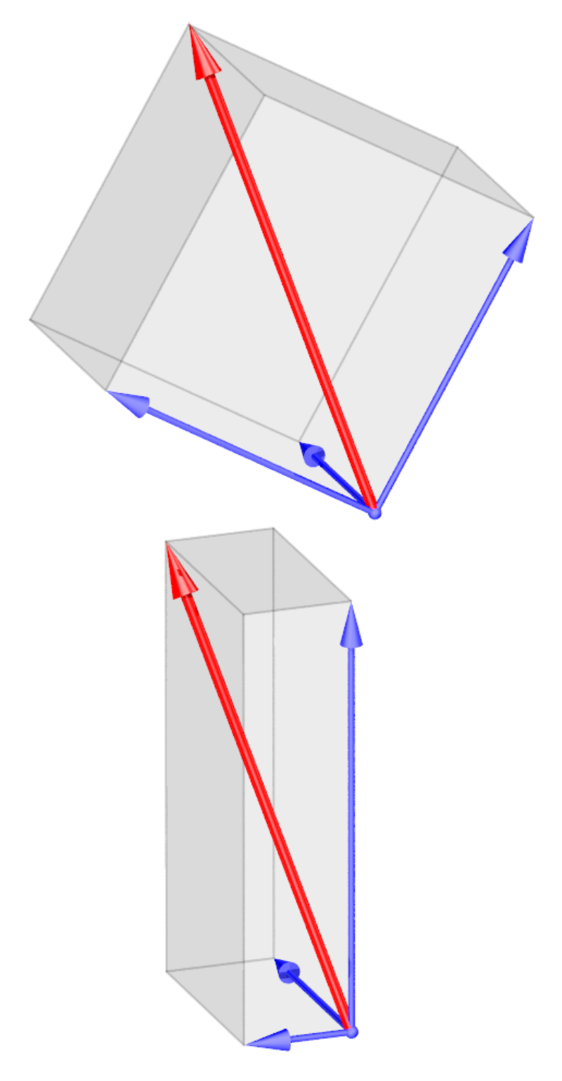 Two bases for a vector